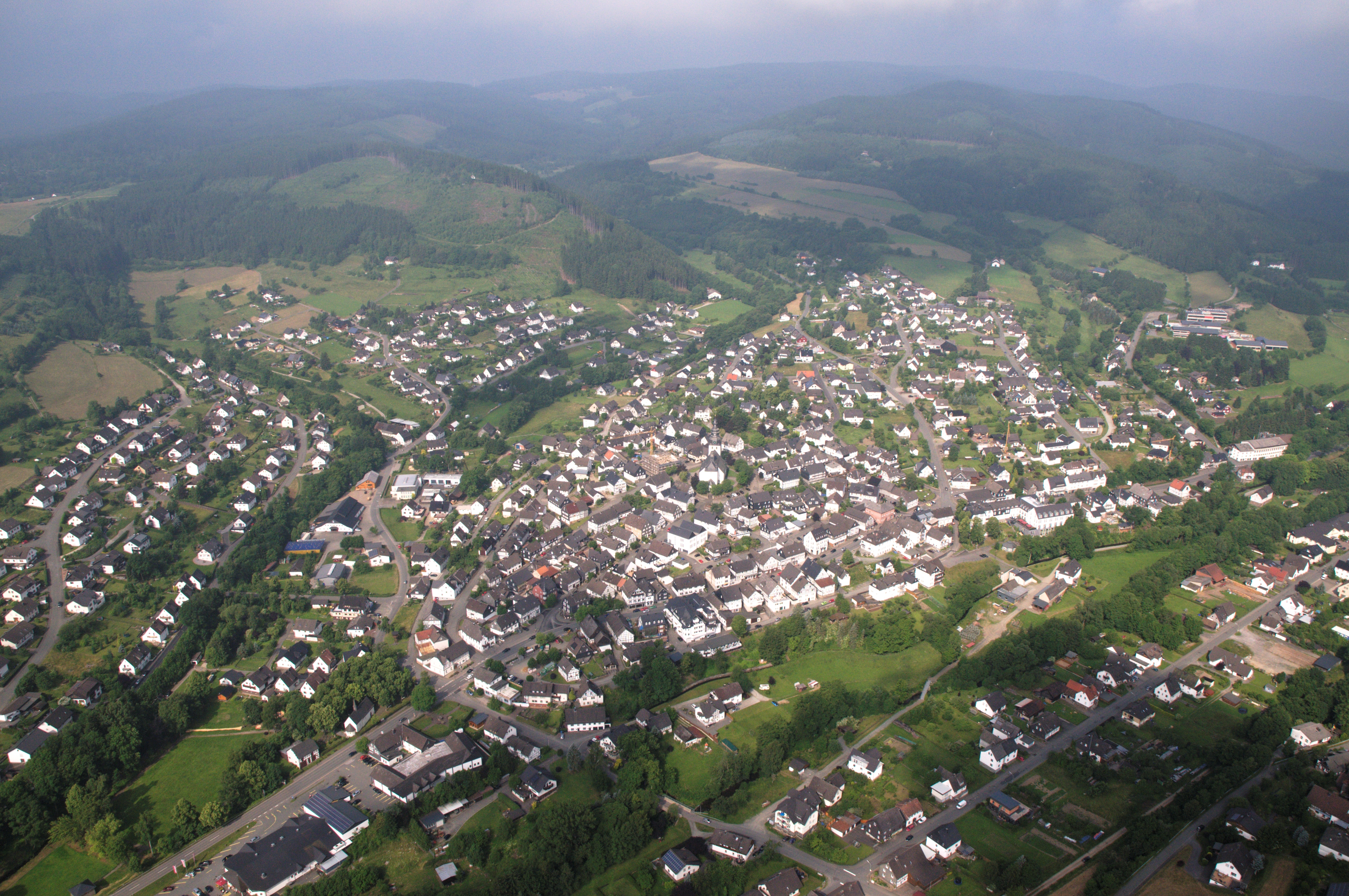 Fotoflug Sauerland-Ost: Hallenberg, Kernstadt von Osten aus gesehen The making of this document was supported by the Community-Budget of Wikimedia Germany.